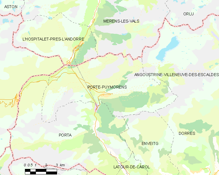 Map of French municipality